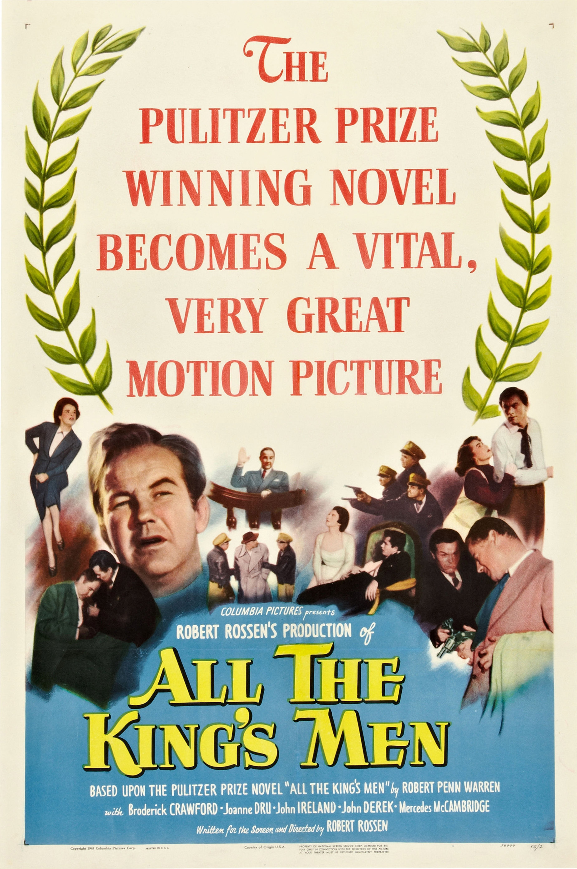 Theatrical poster for the American release of the 1949 film All the King's Men, based on the 1946 novel of the same name.